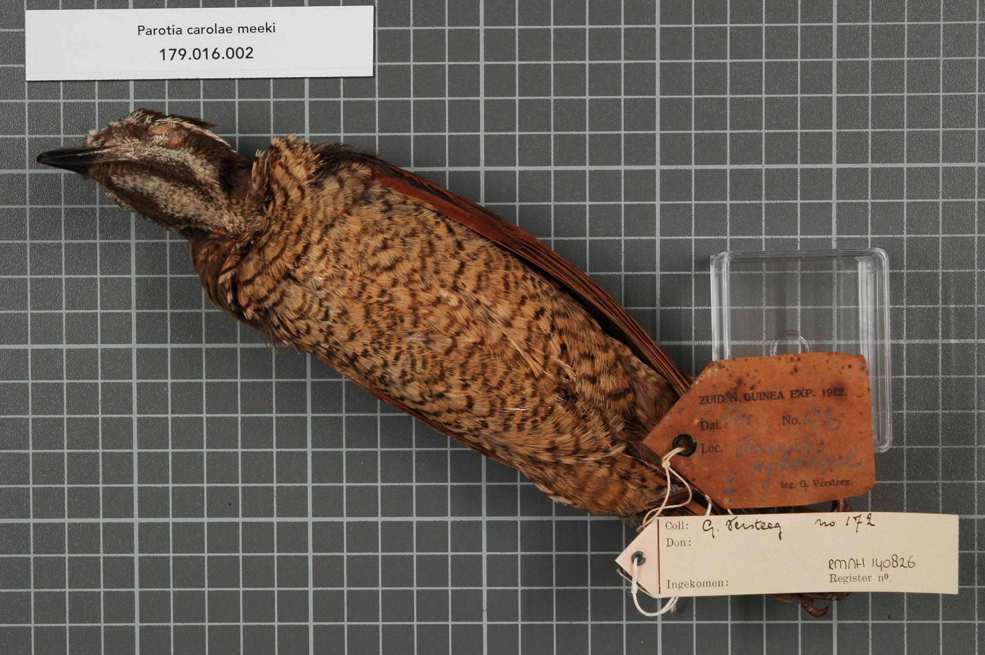 Parotia carolae meeki Rothschild, 1910